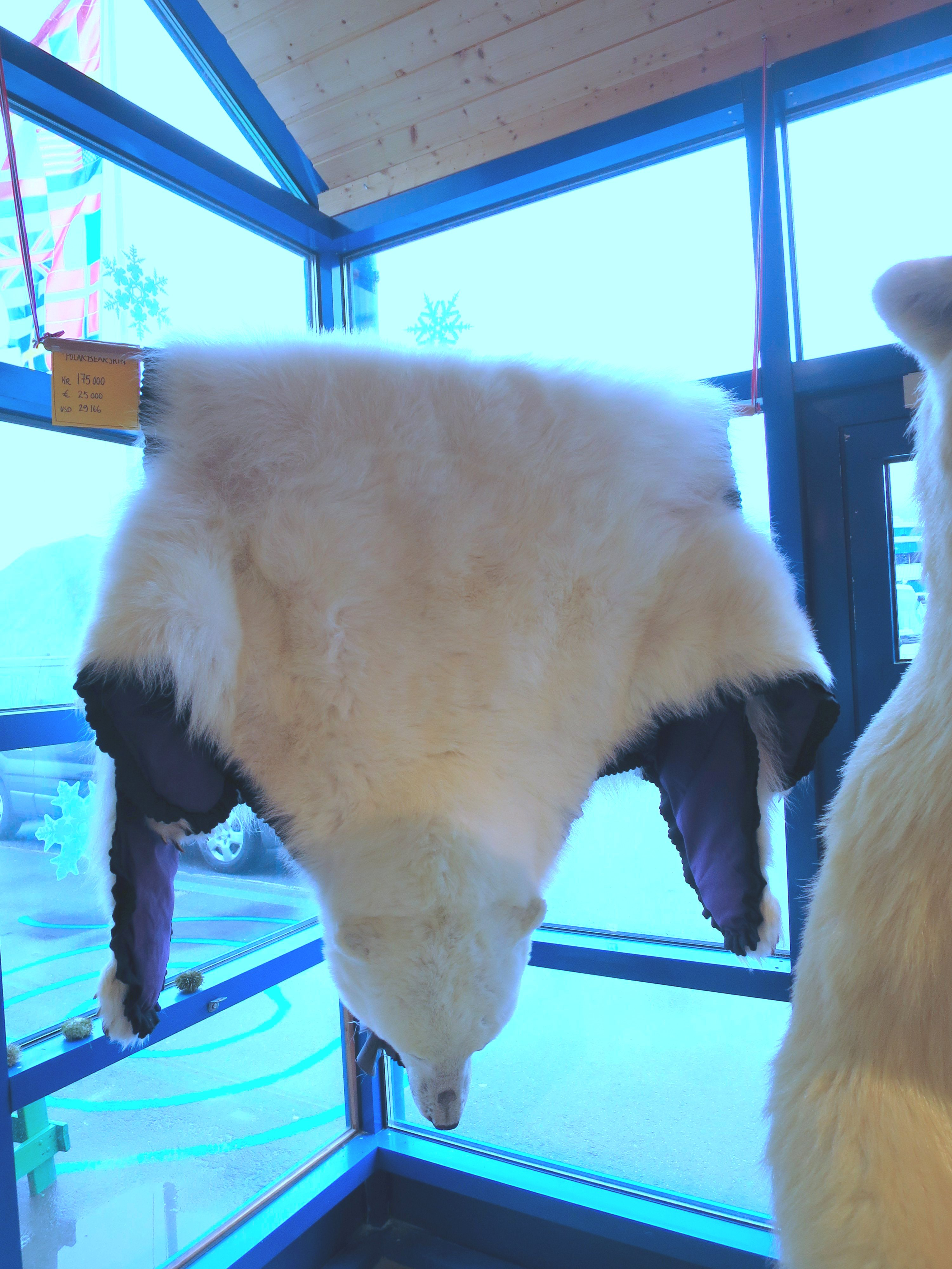 Polar bear skin on sale in Honningsvåg, Norway, August 1, 2015. The price is 175,000 Norwegian krone, 25,000 euros or 29,166 US dollars.